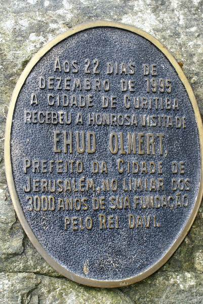 Bronze plate celebrating the visit of Ehud Olmert in Curitiba